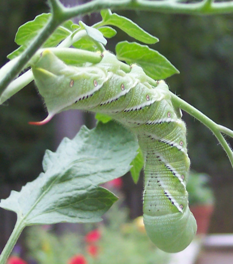 Tobacco hornworm, larva of Manduca sexta, on a cherry tomato plant.